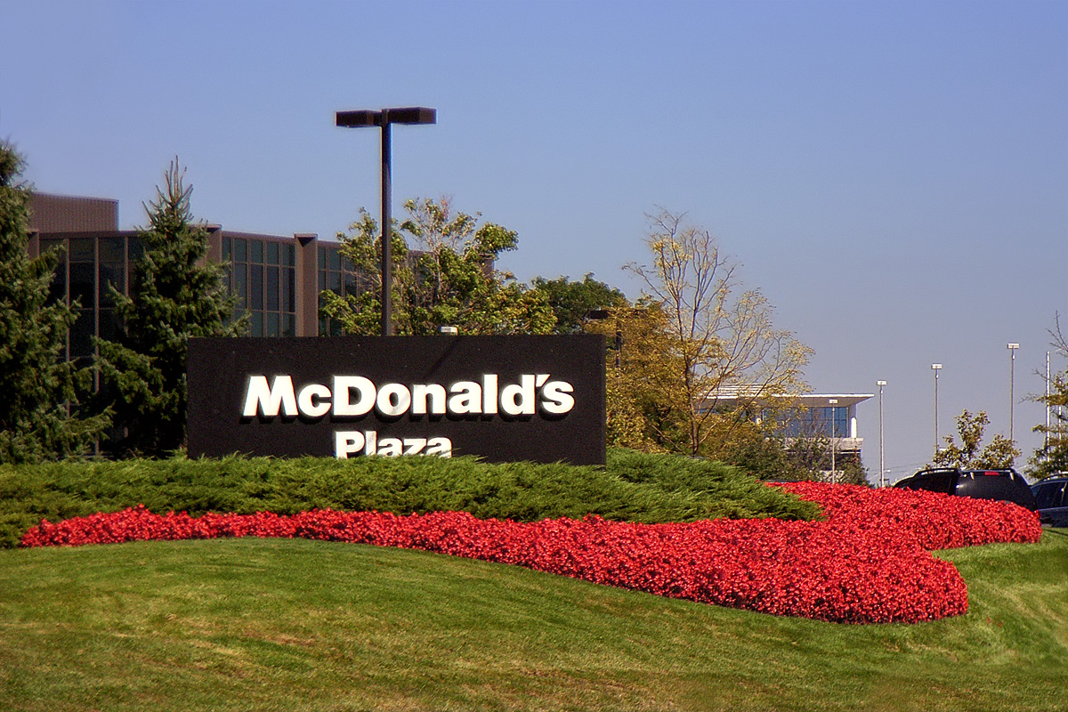 Sign outside McDonald's Plaza, one of the four buildings that make up the campus of McDonald's headquarters in Oak Brook, Illinois. Even though the image watermark says "(c)," the license on Flickr has been changed to a Creative Commons license.